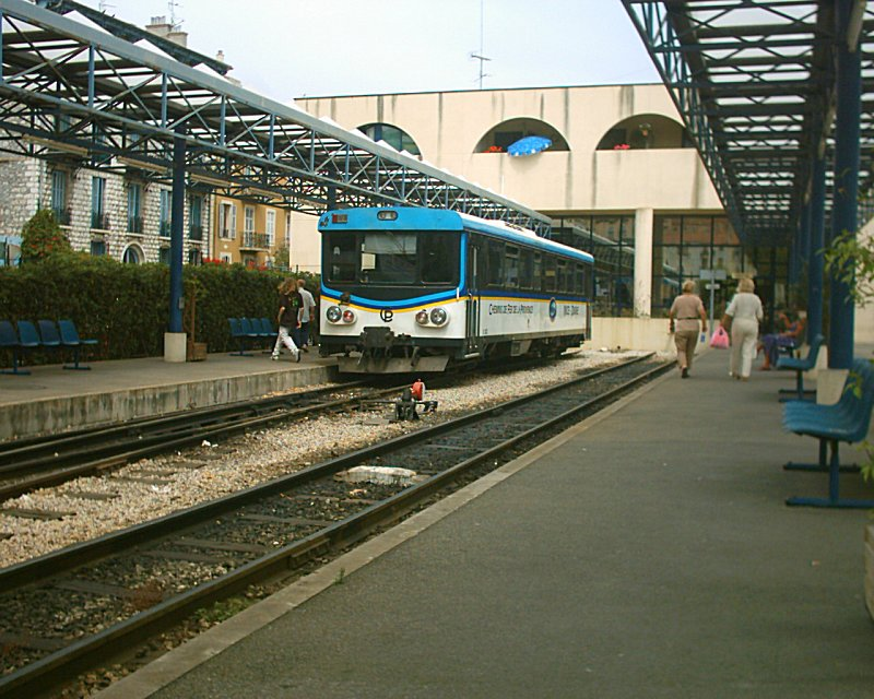 Back of Gare de Nice CP, Nice.